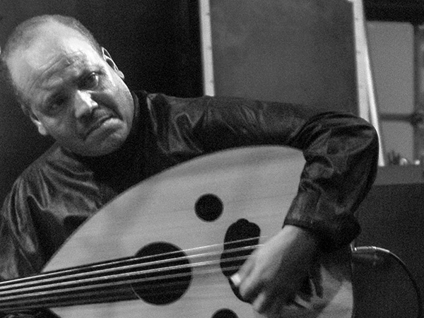 Majid Bekkas in Aarhus Denmark 2011 (Performing with the band Ibrahim Electric)